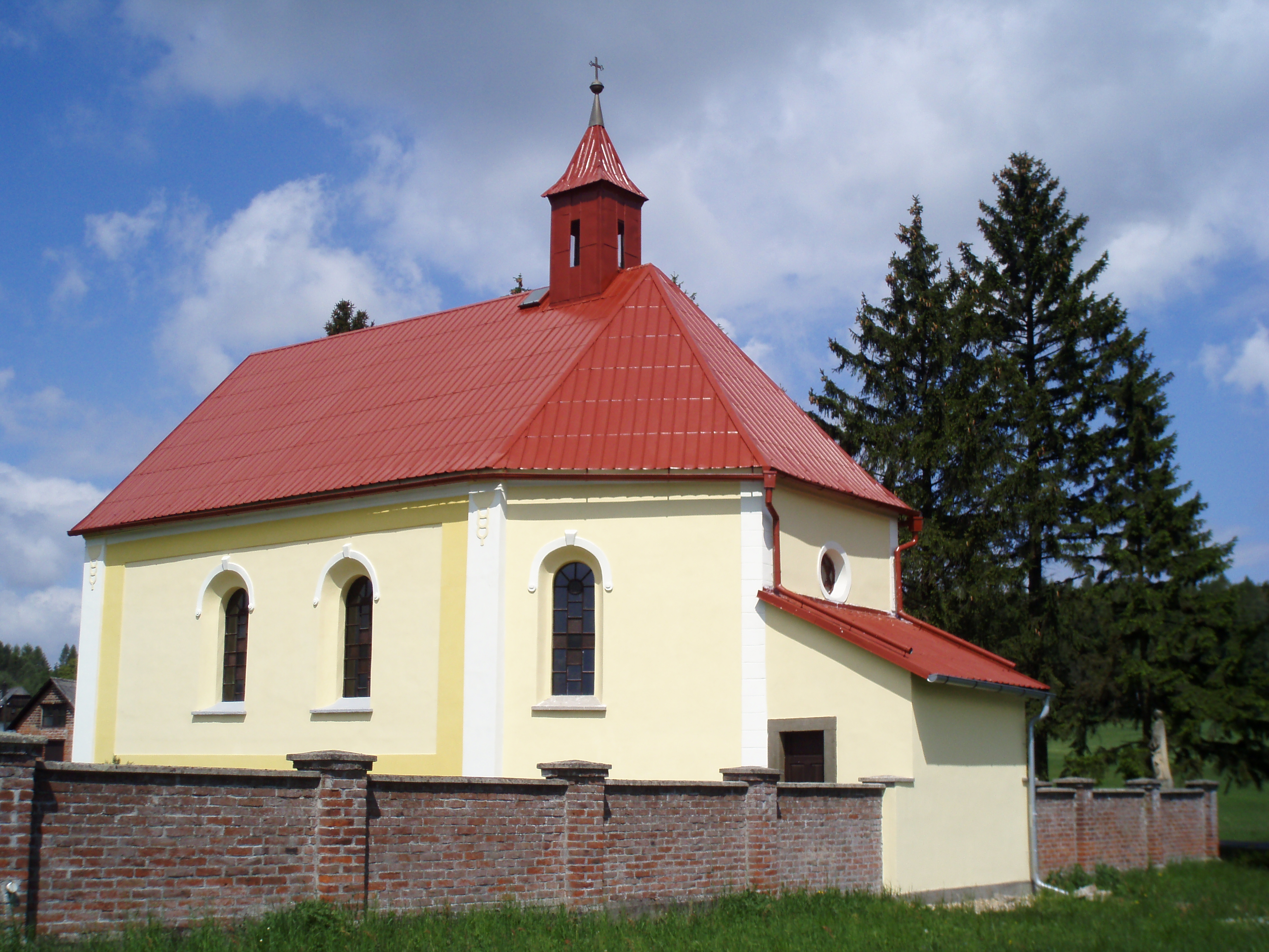 Cemetery Chapel of St. Joseph in Proruby (Brzice, Czechia)